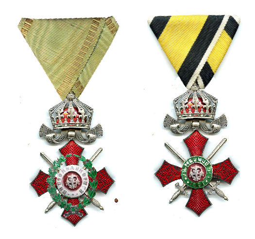 Twice the Bulgarian Order of Military Merit. Once on the ribbon of the Order of Military Bravery with the aurels and the white ring, and once in the version for peacetime.